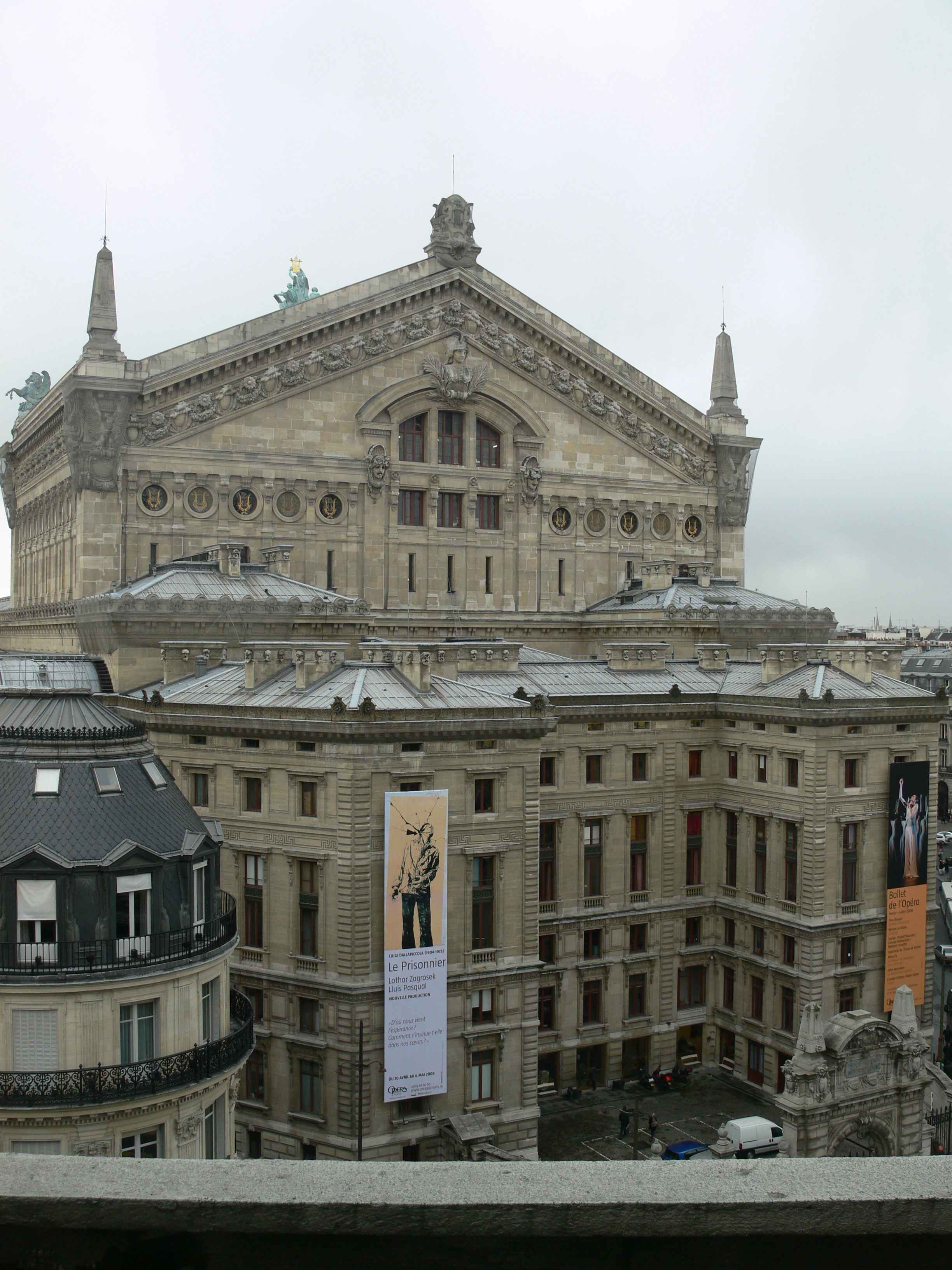 Opéra (Palais Garnier), Paris, France; photographed from the 6th store of the Galeries Lafayette